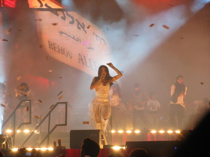 Dana International at the opening event for Tel Aviv's 100th anniversary celebration. Rabin Sq. (formerly known as Malchei Yisrael Sq.), Tel Aviv.